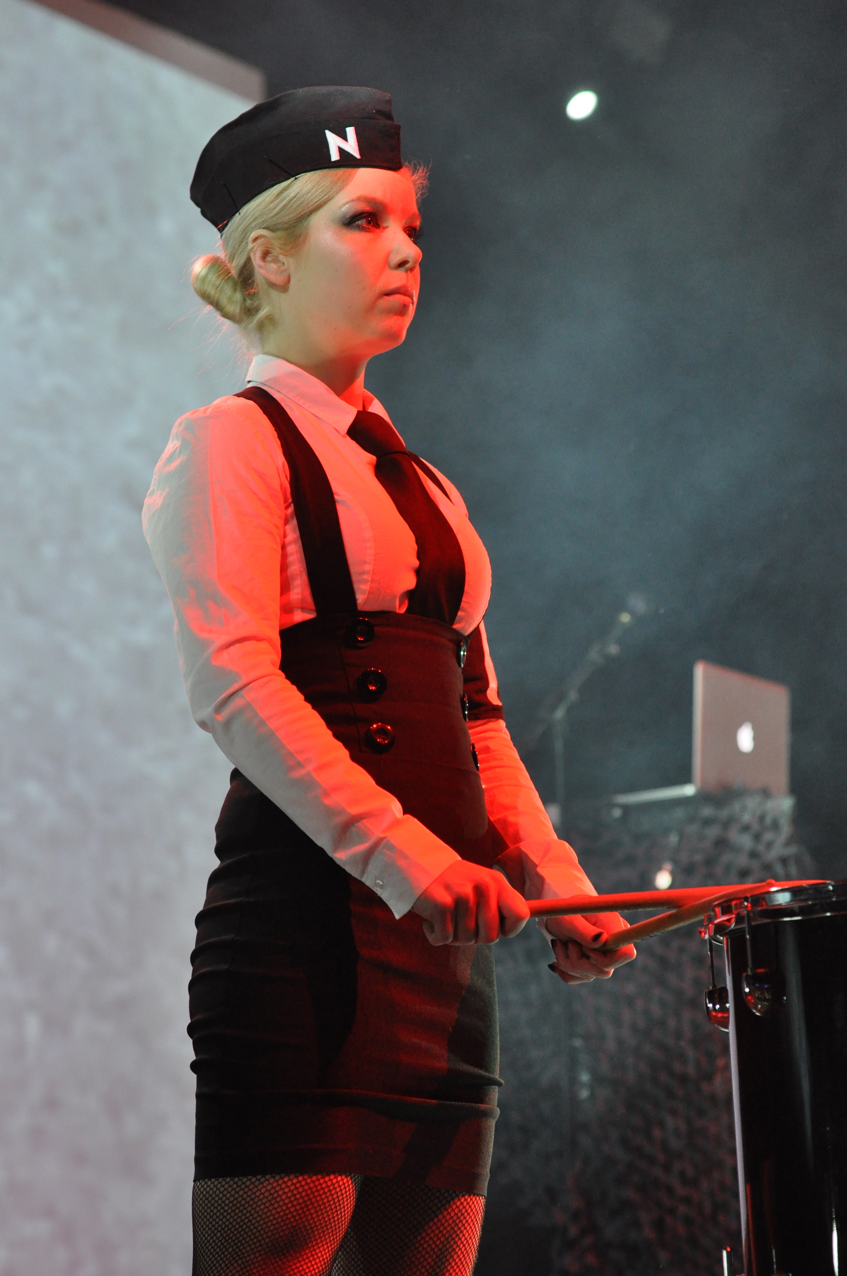 The austrian Band Nachtmahr at e-tropolis 2013, Berlin